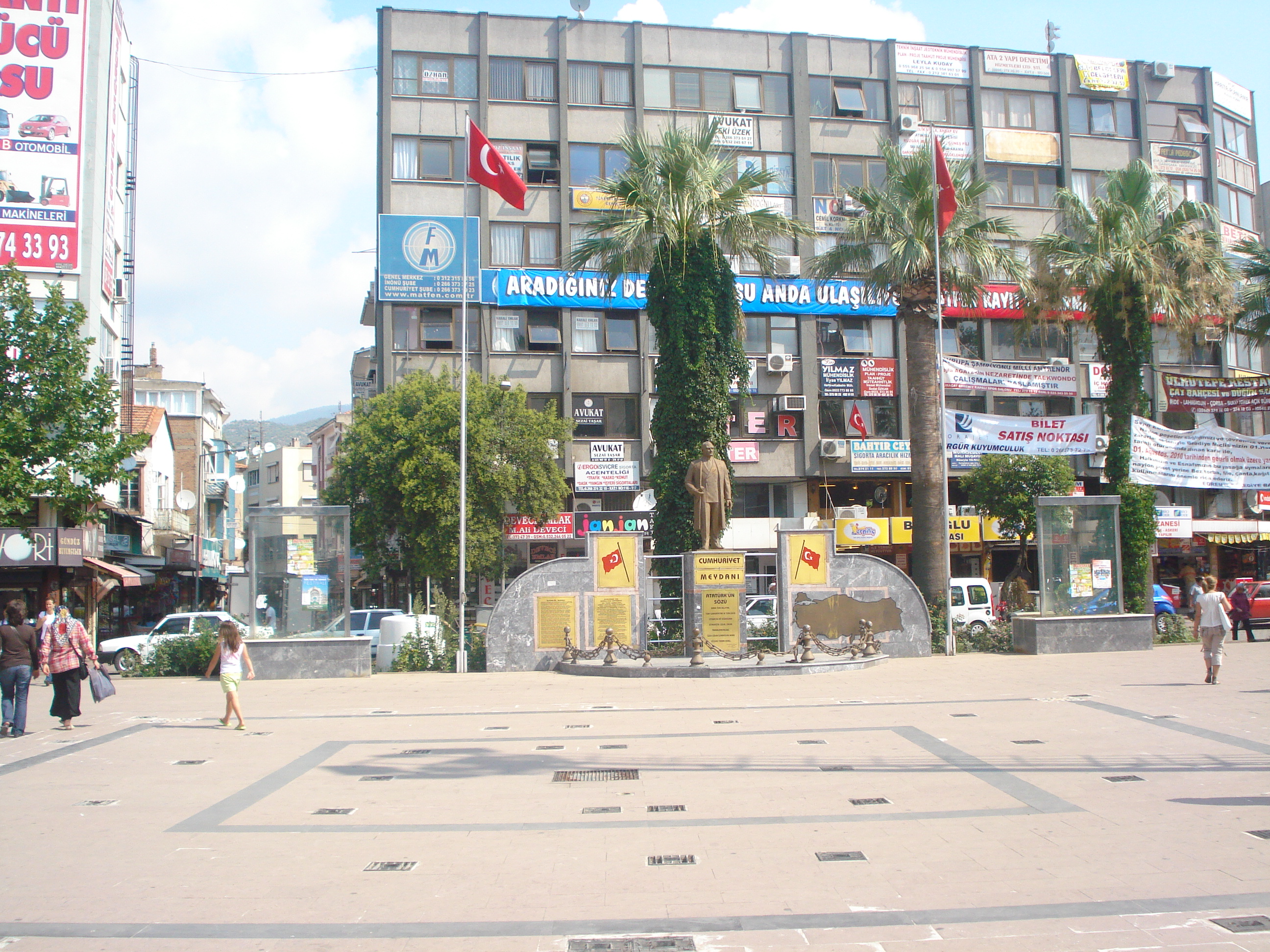 The "square of republic" in the turkish town of Edremit at the aegean (July 2010).